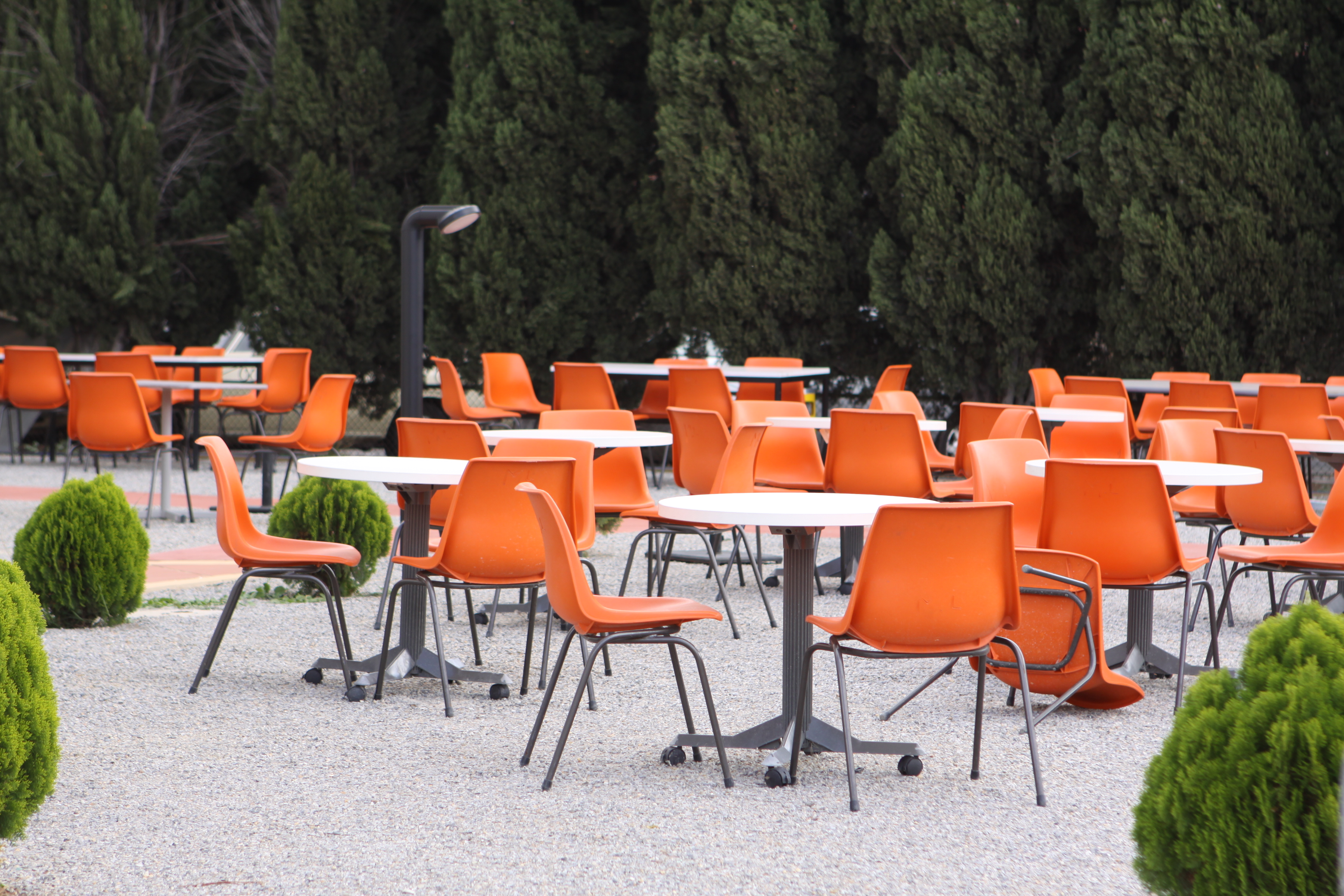 Polypropylene stacking chairs by designer Robin Day. Monte Lauro Social Club. West Brunswick, Melbourne, Victoria, Australia.